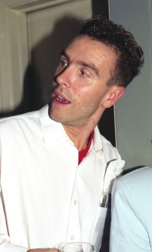 Subject: Nick Seymour of Crowded House Date: April, 1987 Place: Wolfgang's (nightclub) in San Francisco, California, USA Photographer: Andwhatsnext Original 35mm photograph scanned Credit: Copyright (c) 1987 by Nancy J Price